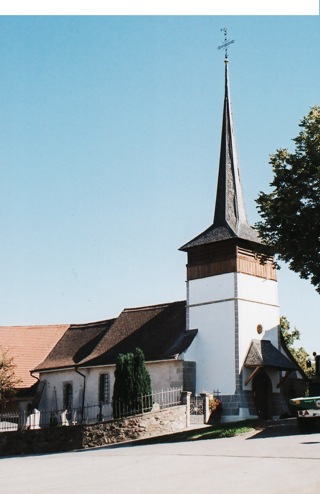 ChiShona: Church Notre-Dame-de-l'Epine of Berlens, Switzerland